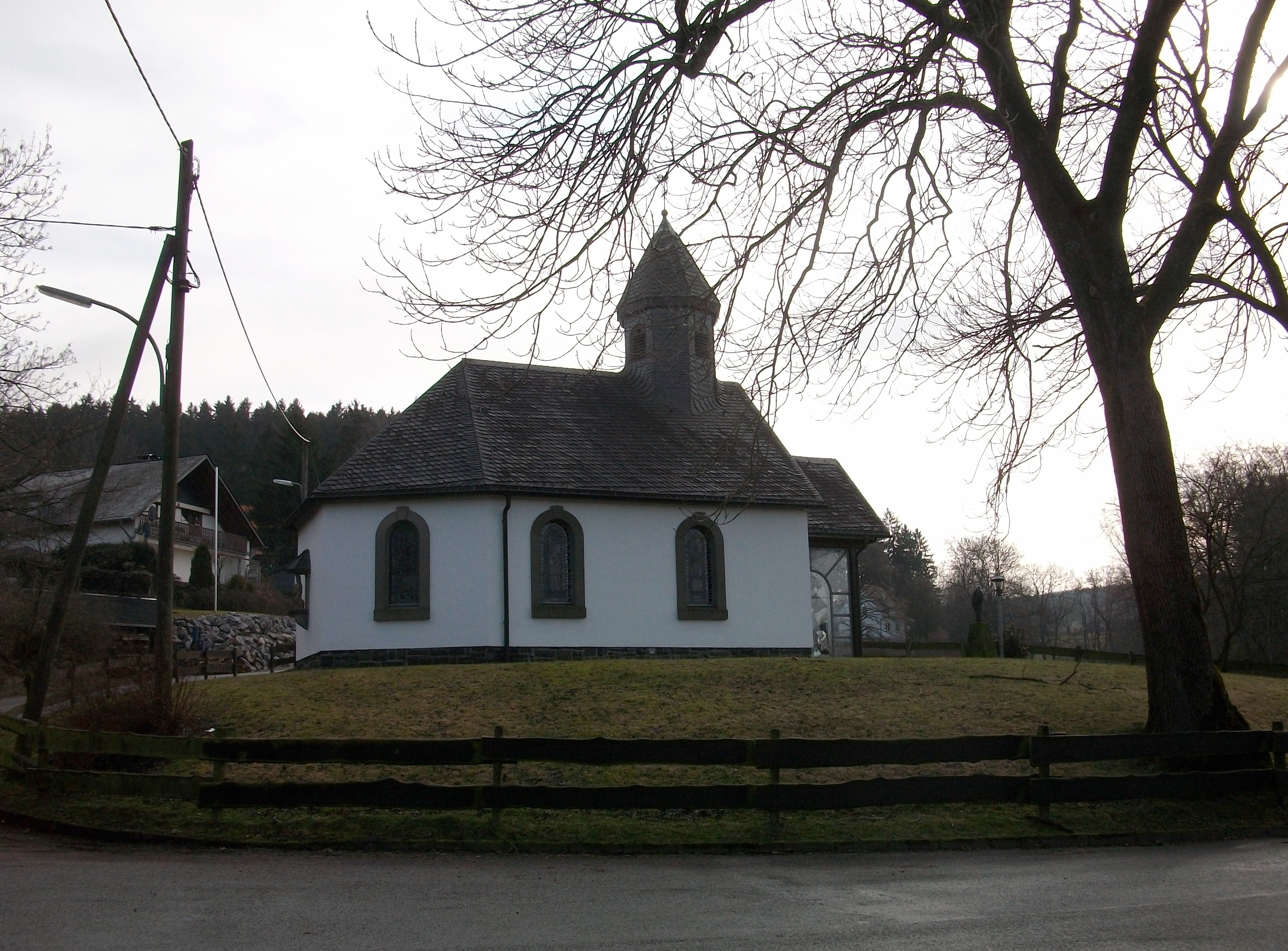 Hubertuskapelle in Brilon-Rixen (Germany)